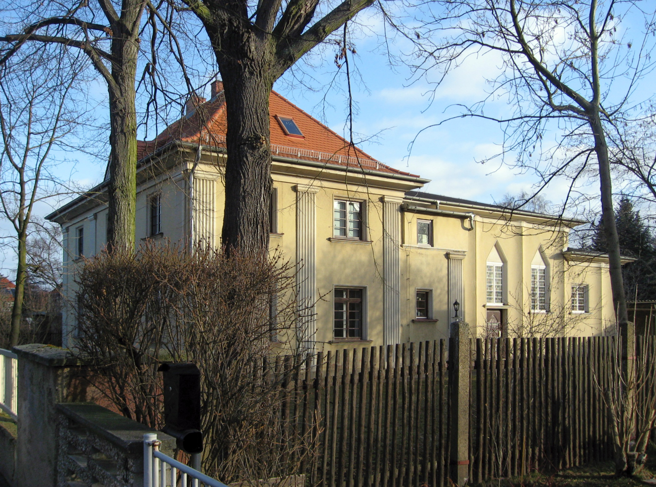 Church Leipzig-Marienbrunn, Lerchenrain 1